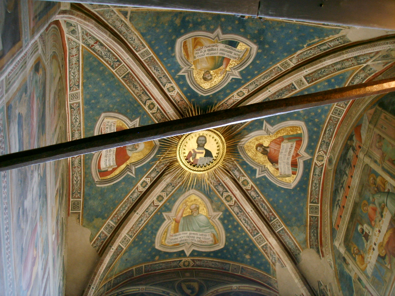 Santa Croce church in Florence, Italy. Rinuccini Chapel, vestry: frescos by Giovanni da Milano.